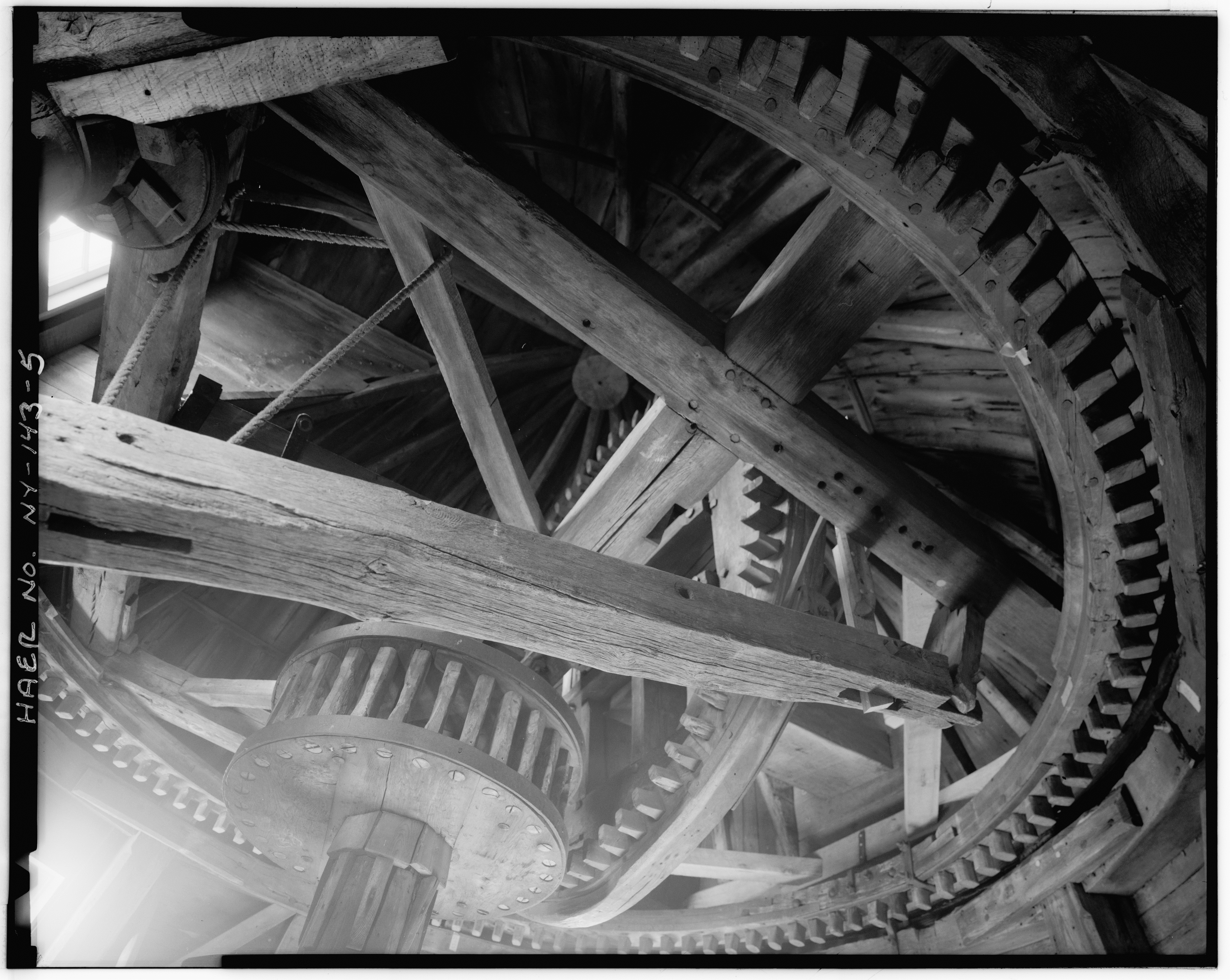 Interior view of Pantigo Windmill, looking up into cap from floor -- cap rack, brake wheel, brake and wallower. Pantigo Windmill is located on James Lane, East Hampton, Suffolk County, Long Island, New York. Photograph courtesy of the Historic American Buildings Survey, Library of Congress, Washington, D. C.